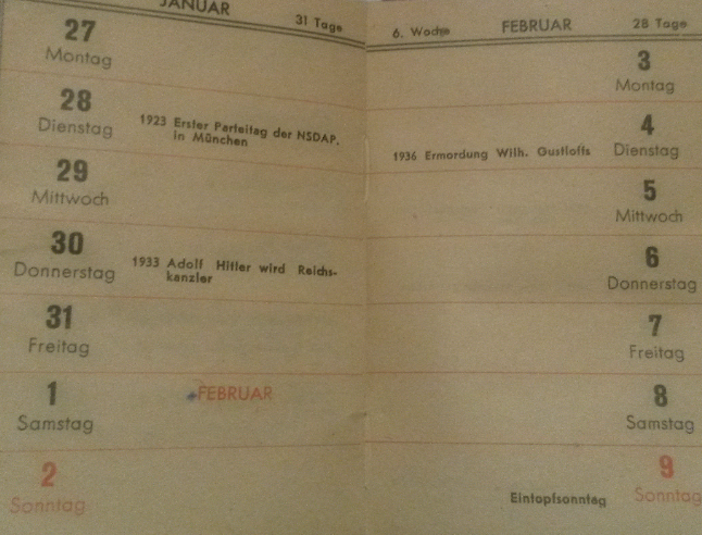 Photography of a double-sided page of the pocket calendar "Zeitweiser 1941"